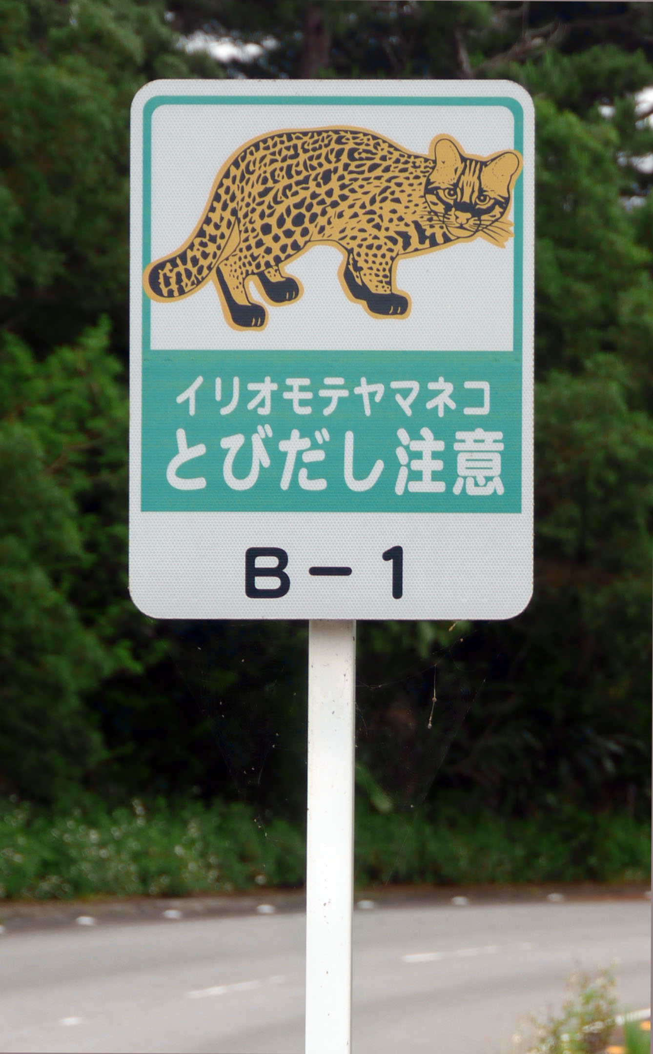 Warning sign for Iriomote cat at Iriomote island, Okinawa, Japan.